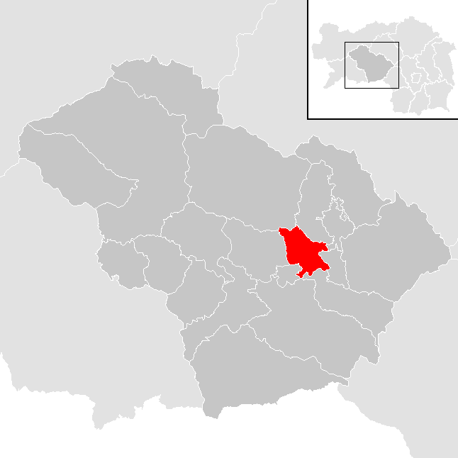 district Murtal in Styria, Austria